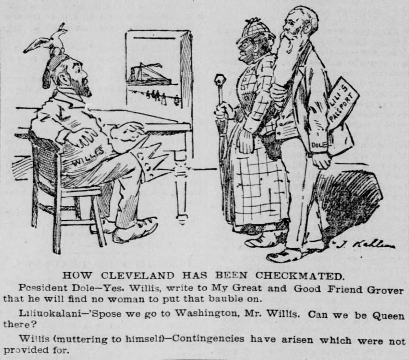 Text: "How [U.S. President] Cleveland has been checkmated. President Dole--Yes Willis, write to My Great and Good Friend Grover that he will find no woman to put that bauble on. Liliuokalani--'Spose we go to Washington, Mr. Willis. Can we be Queen there? Willis (muttering to himself)--Contingencies have arisen which were not provided for." Liliuokalani and Minister Willis The Morning Call, November 24, 1893, Image 1 From the University of Hawaii at Manoa Library